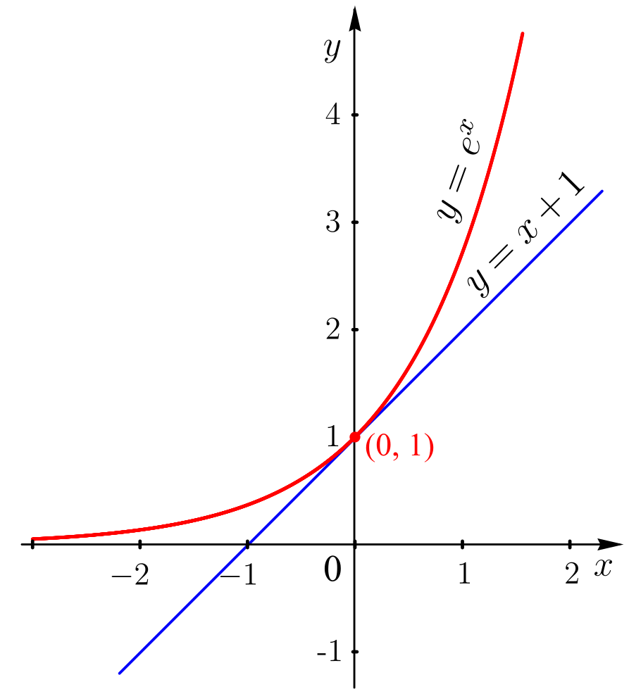 the exp function